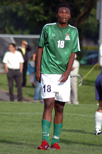 Photo of soccer player, Rodgers Kola, taken during an exhibition game between the Zambian U-20 national team and a local youth all-star squad in Richmond, BC, Canada. Wilson Wong photo.